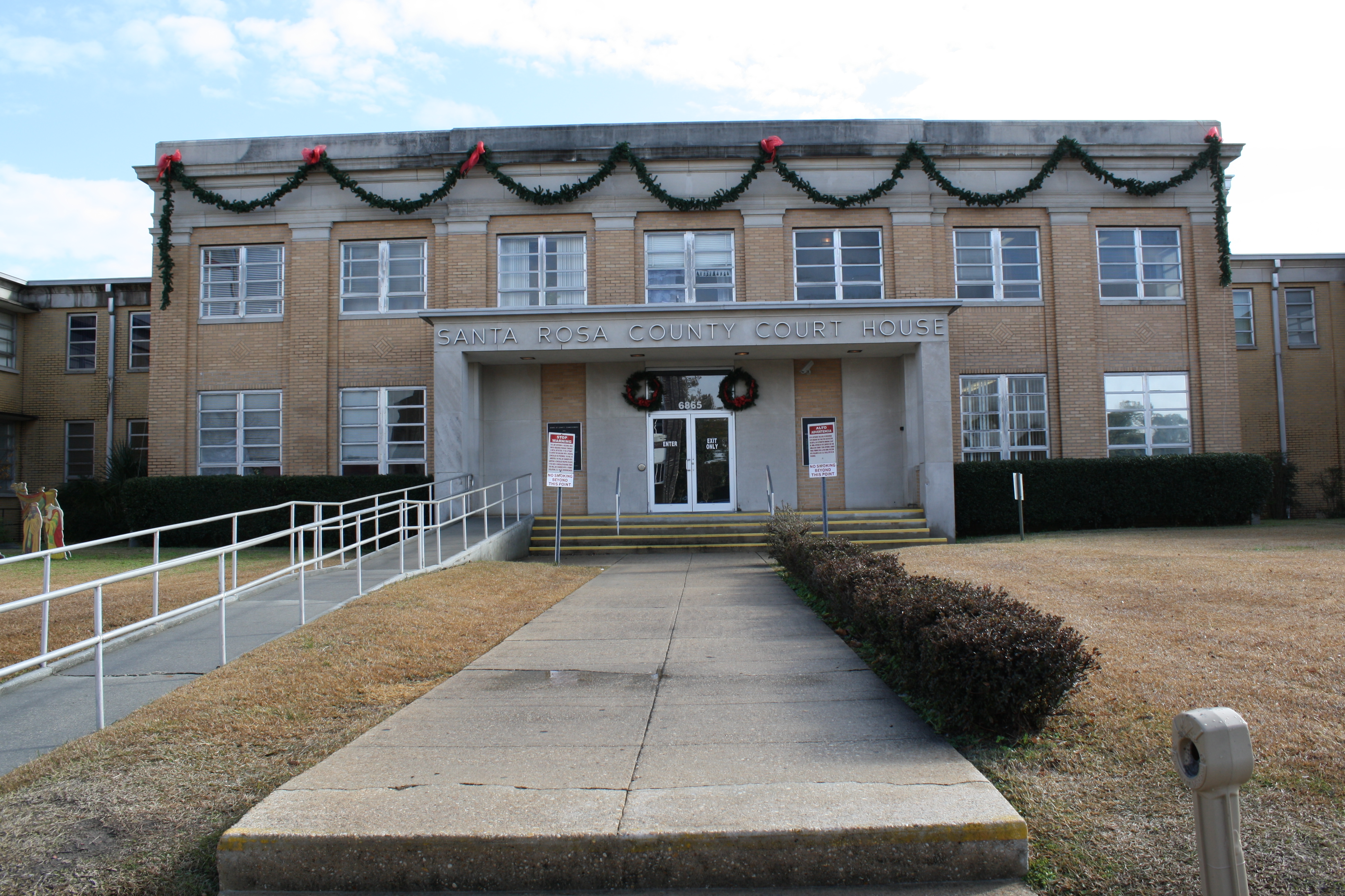 Courthouse, Santa Rosa County, Milton, FL